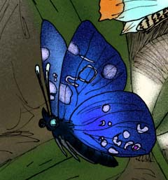 Reconstruction of Lithodryas styx, an extinct butterfly from the Chadronian-aged Florissant, of Latest Eocene Colorado.